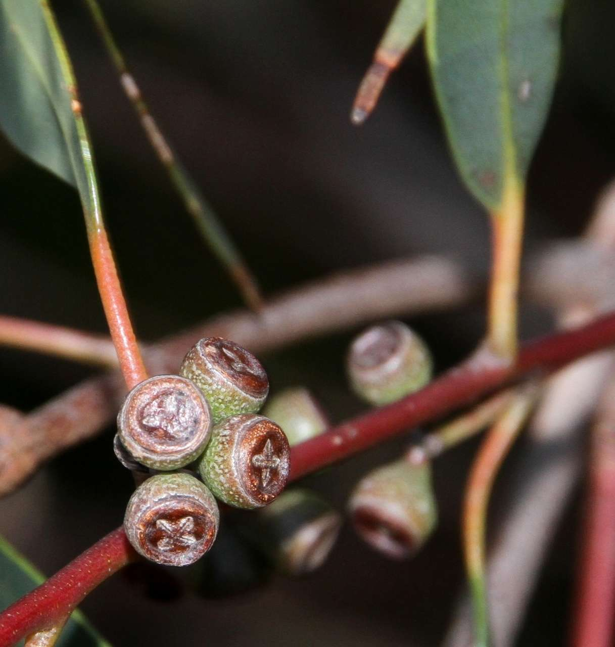 Fruit of Eucalyptus willisii in Wilsons Promontory National Park